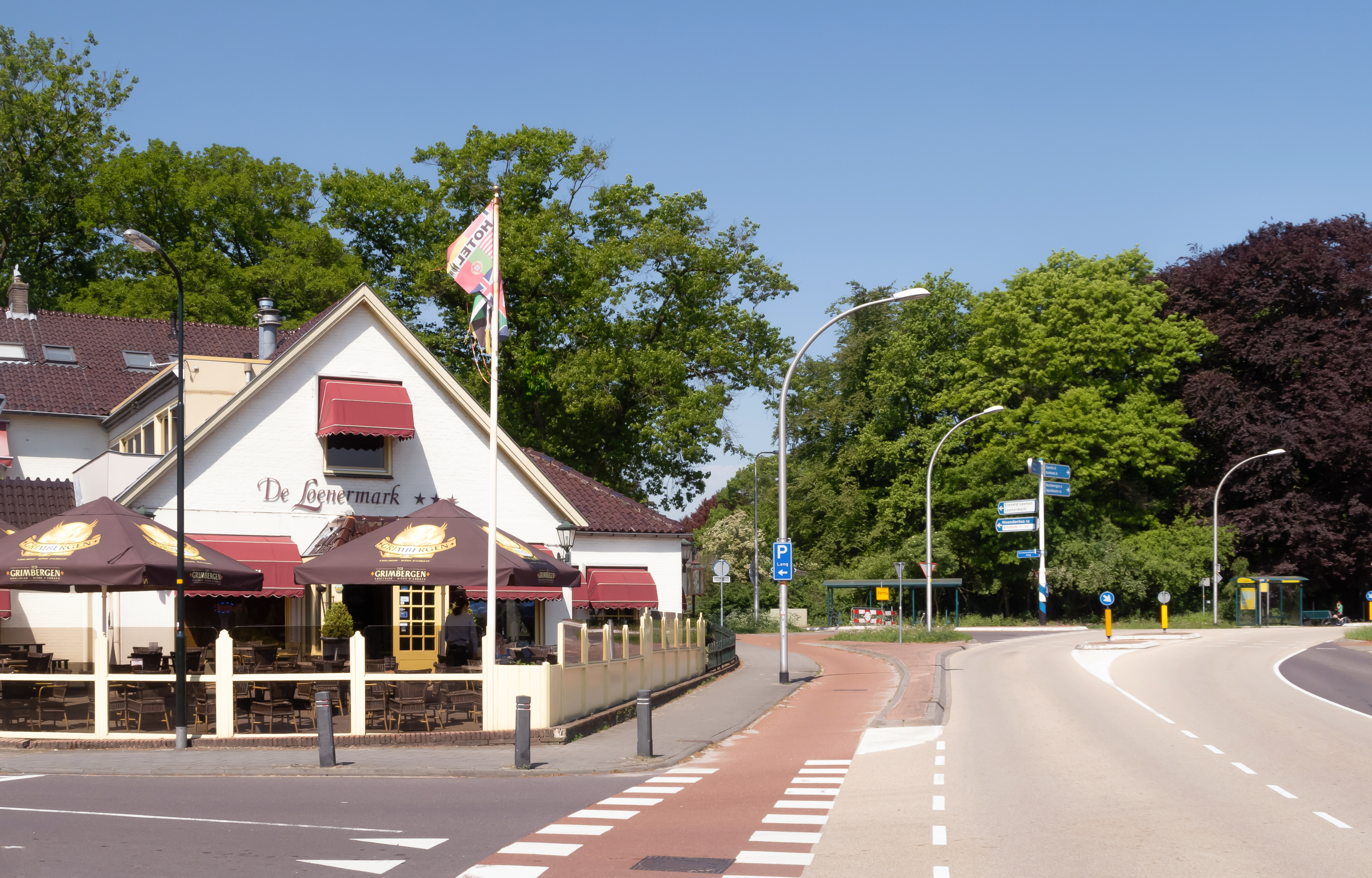 Loenen, hotel-restaurant the Loenermark